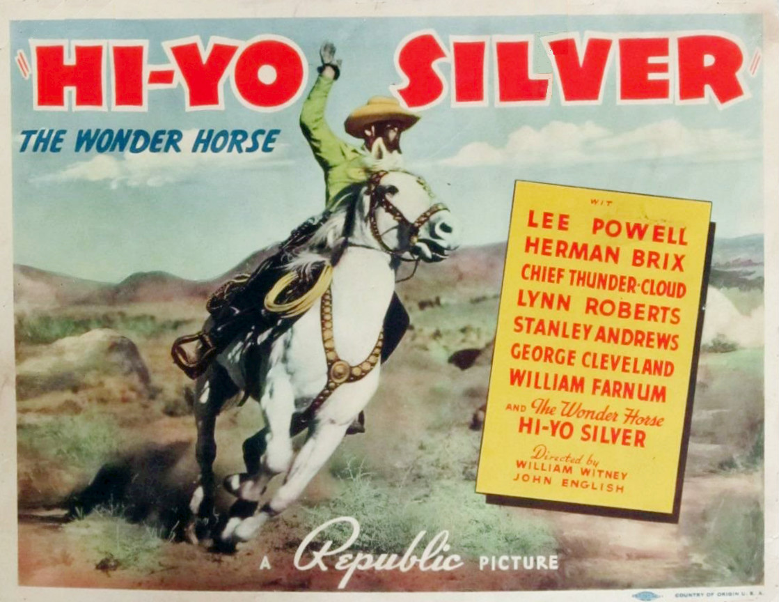 Lobby card for the 1940 film Hi Yo Silver. The full-length film was created with footage from the 1938 serial The Lone Ranger. The item has no copyright marks as can be seen in the links. At bottom right is a logo indicating the card was produced by a union print shop and Country of origin USA.